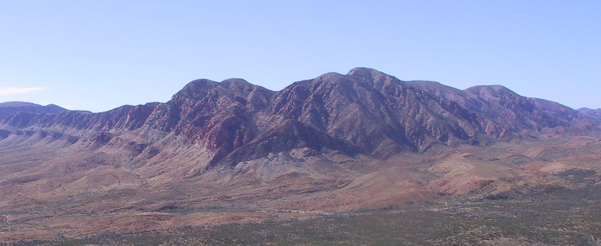 Mount Giles from the West MacDonnell range in the Northern Territory, Australia. The photo was taken in August 2004.